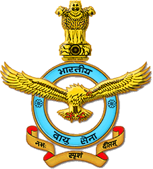 This is the Coat of arm of the Indian Air Force.